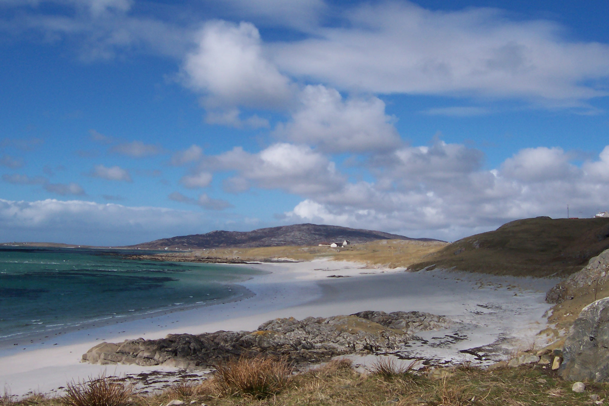 Bonnie Prince Charlie's Beach on the Isle of Eriskay on the Outer Hebrides